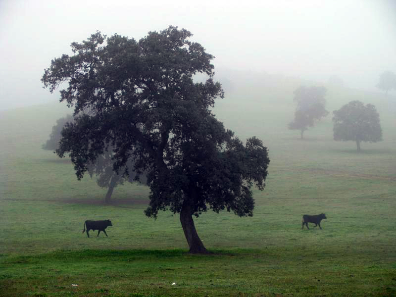 Dehesa en Baños de la Encina